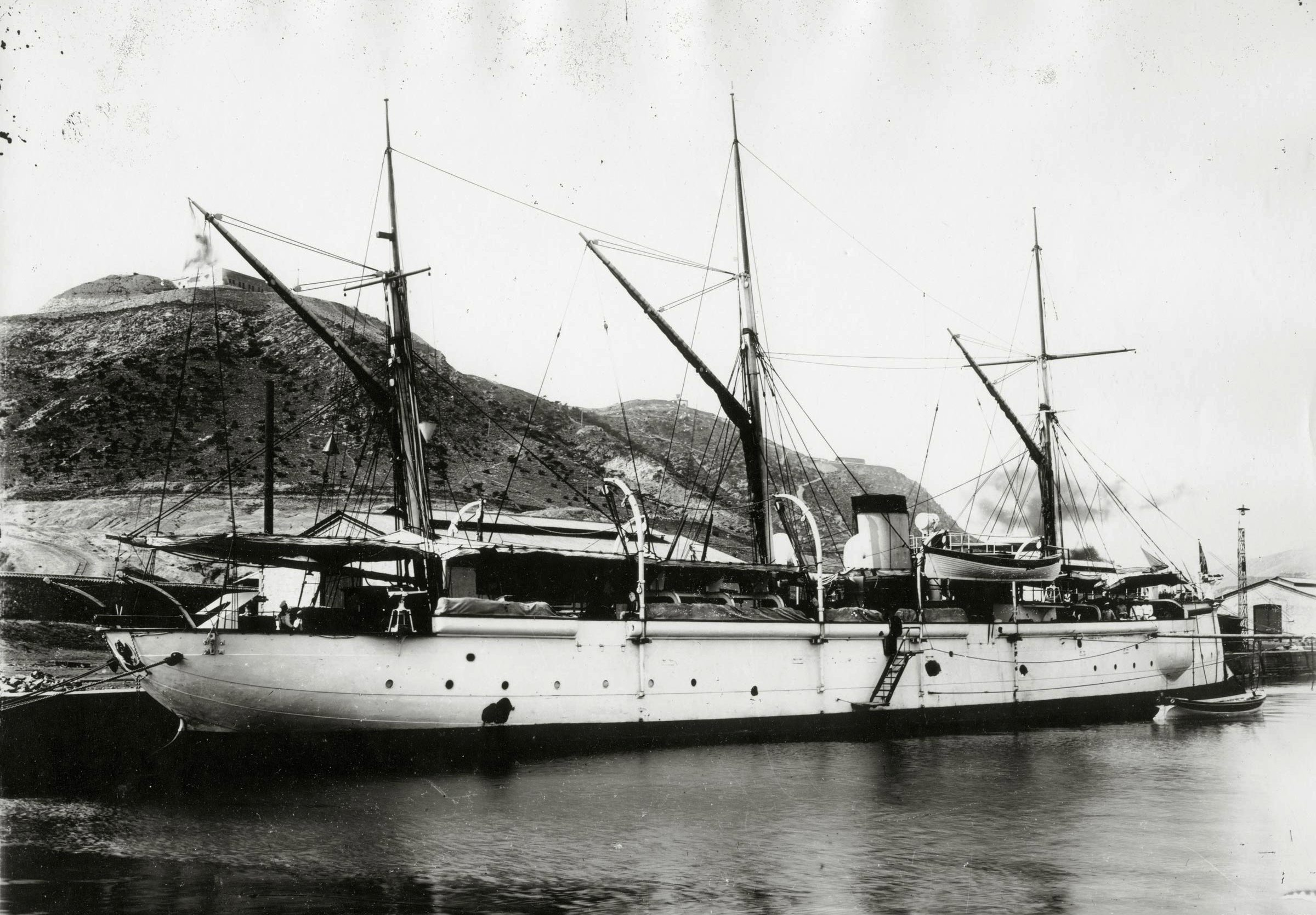 The Imperial Russian gunboat Koreets.